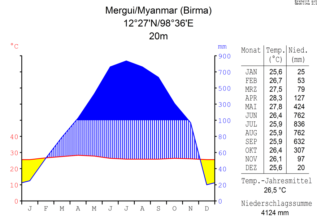 climate chart in the format by Walther and Lieth, metric, °Celsisus and millimeters, made with Geoklima 2.1